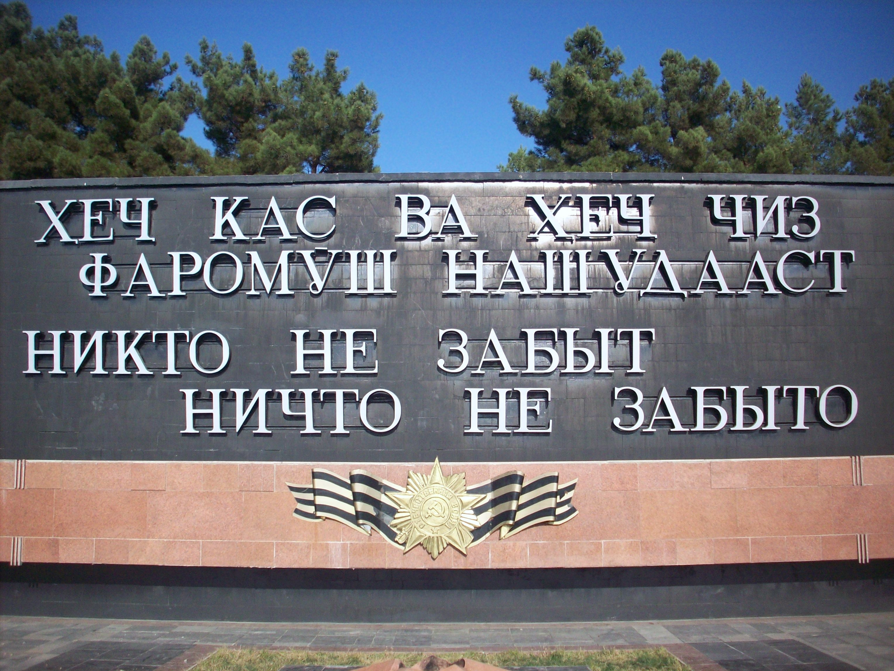 world war 2 memorial, victory park